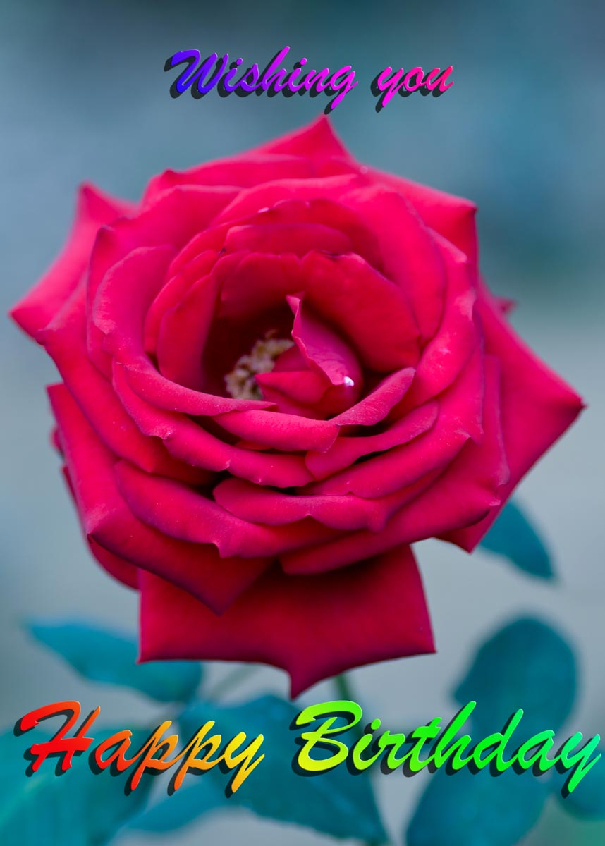 Birthday greetings